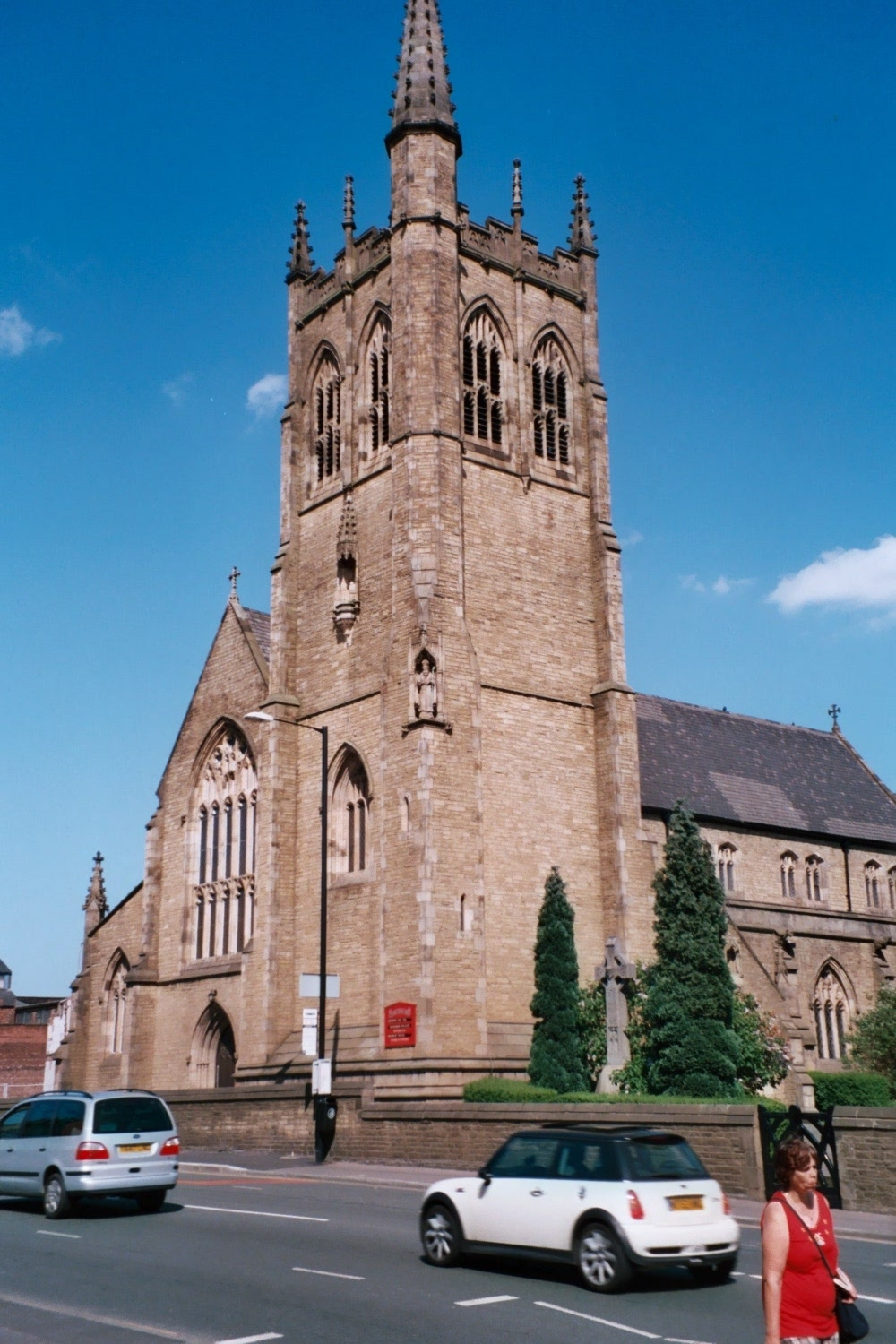 St Chad's Church, Cheetham Hill 2004